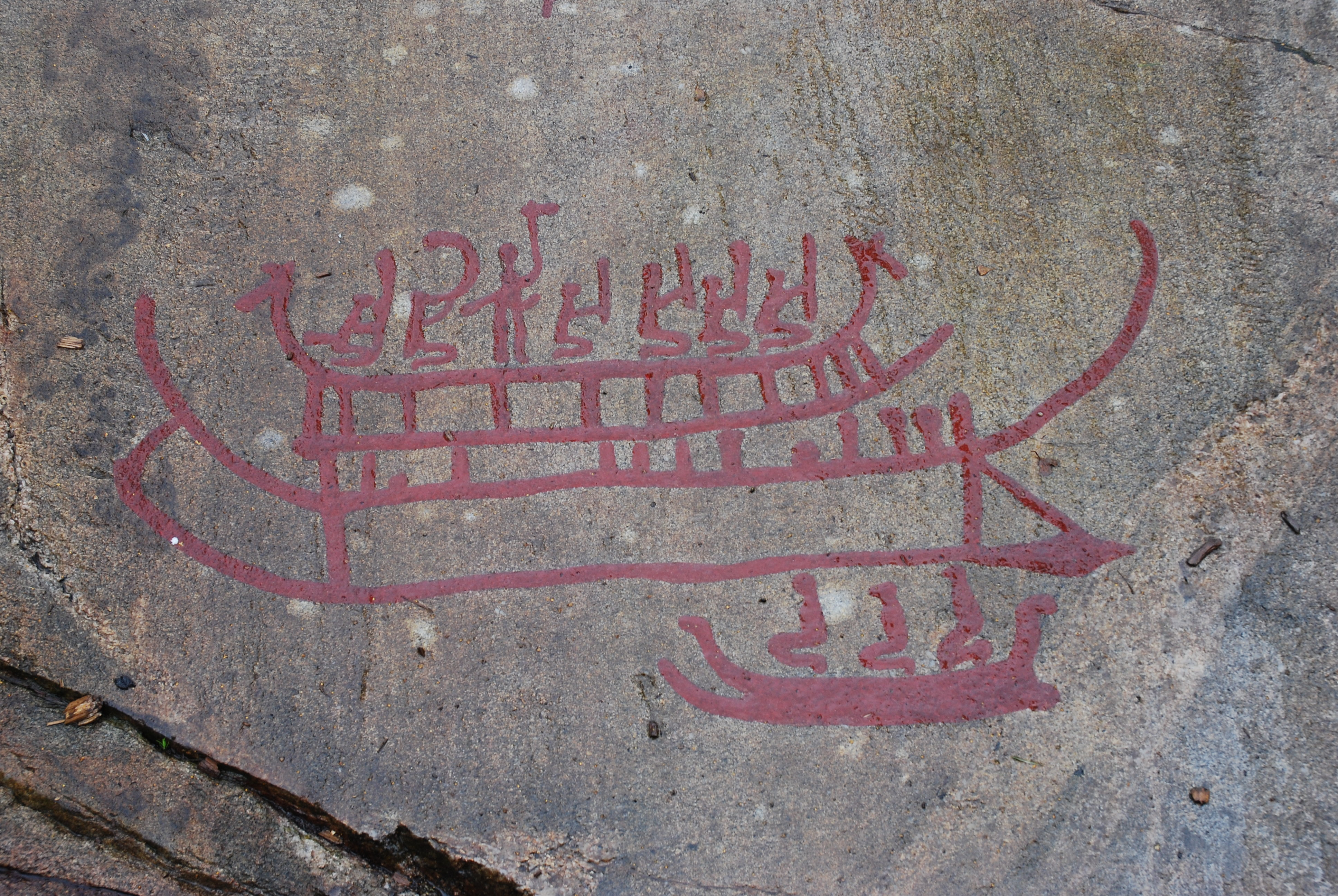 Ships, rock carving at Vitlycke, Tanum, Sweden. Photo: Bengt Oberger